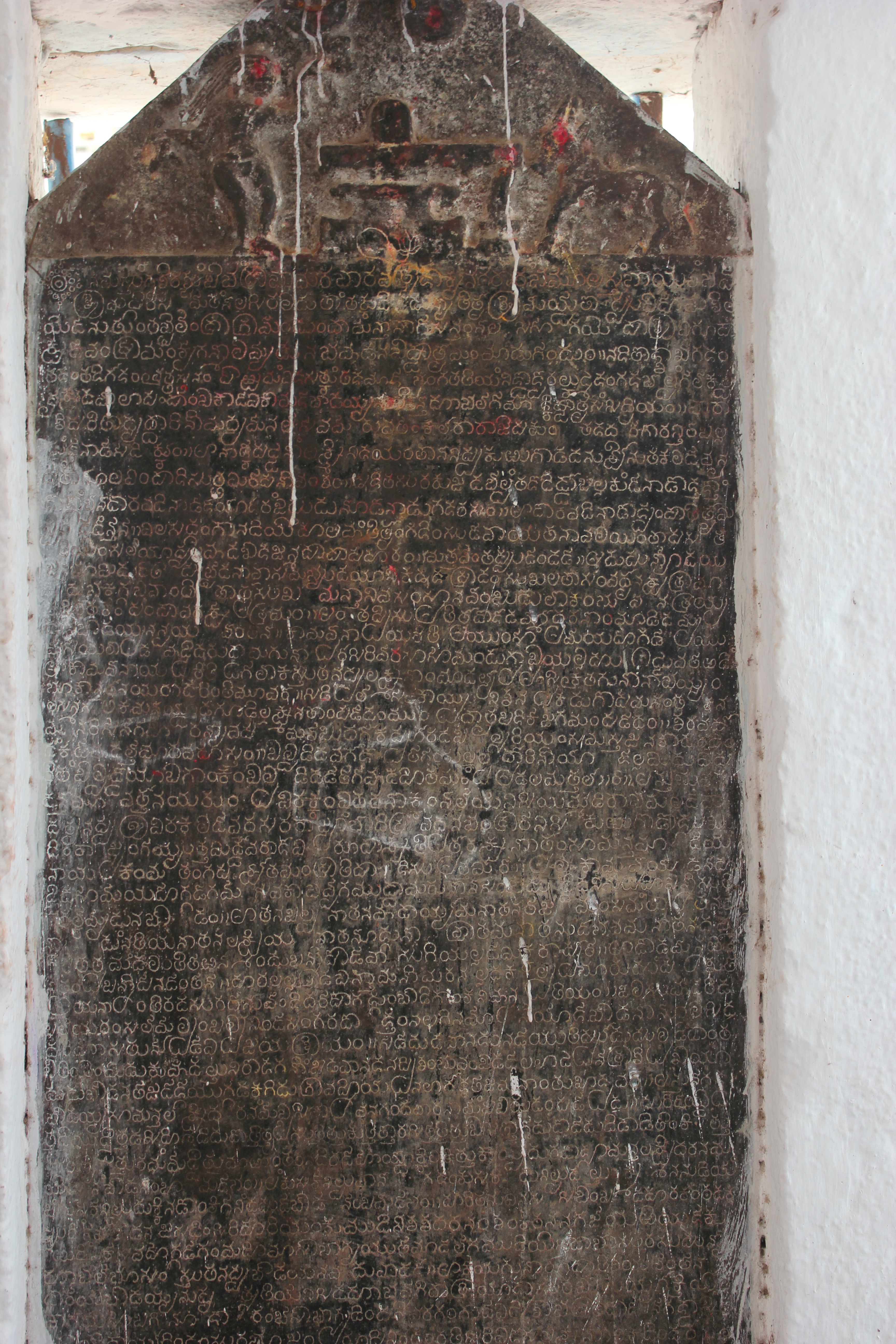 This photograph of an old Kannada language inscription belonging to the Rashtrakuta empire period (9th century) was taken by me at the Durga Devi shrine with in the Virupaksha temple complex at Hampi, a UNESCO world heritage site in Bellary district, Karnataka state, India